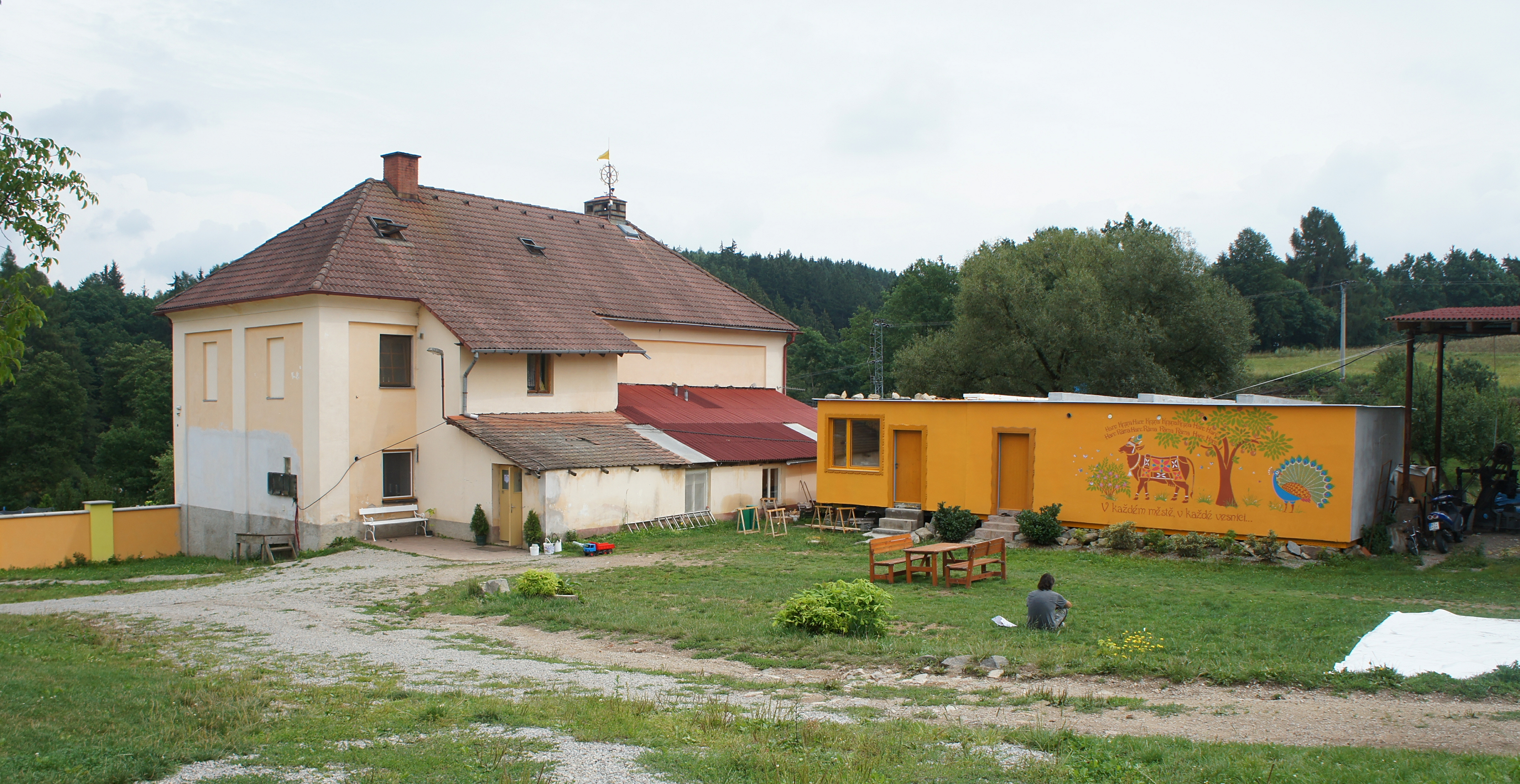 The Deities in the Krišnův dvůr (Central Bohemian Region, Czechia).